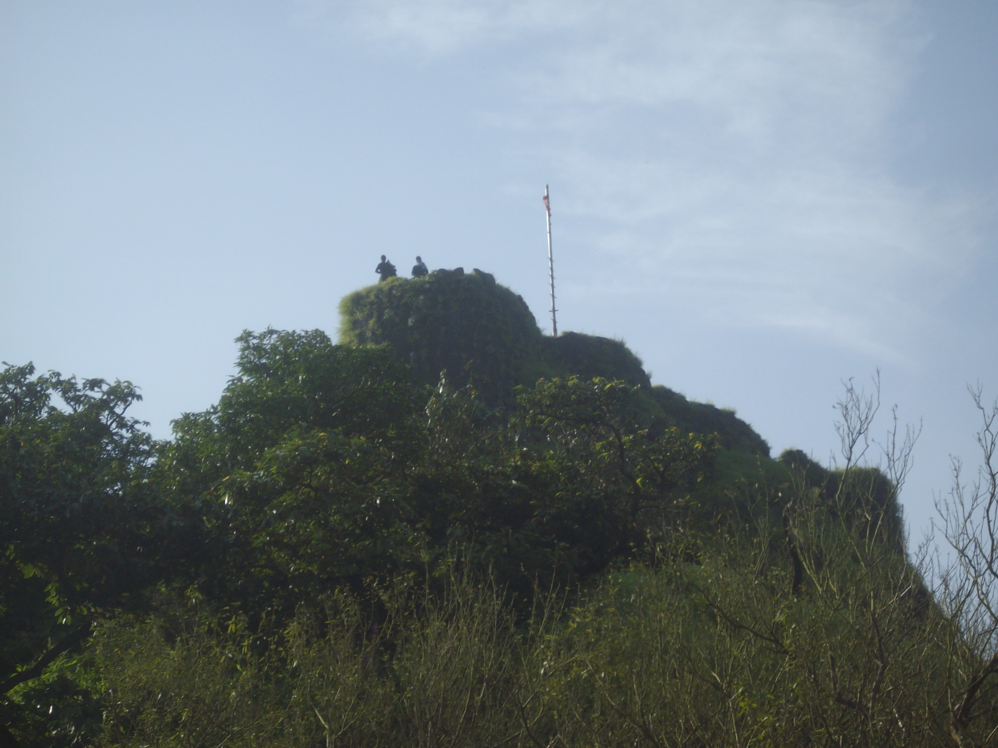 "Shreevardhan Fort" in Rajmachi in the State of Maharashtra..